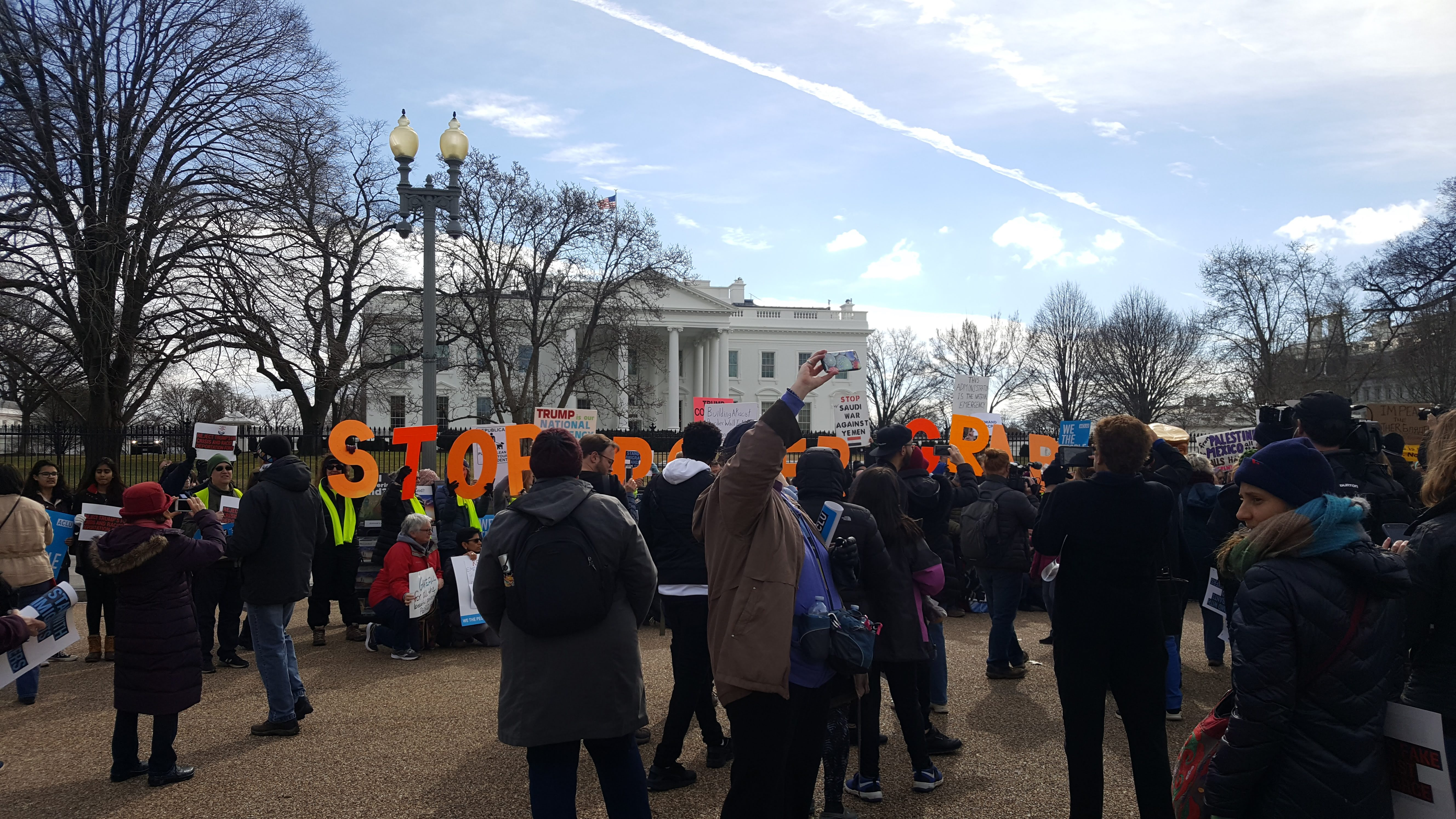 The 2019 Presidents Day protest against Donald Trump's national emergency declaration in front of the White House. The protestors are holding orange letters spelling out "Stop Power Grab."